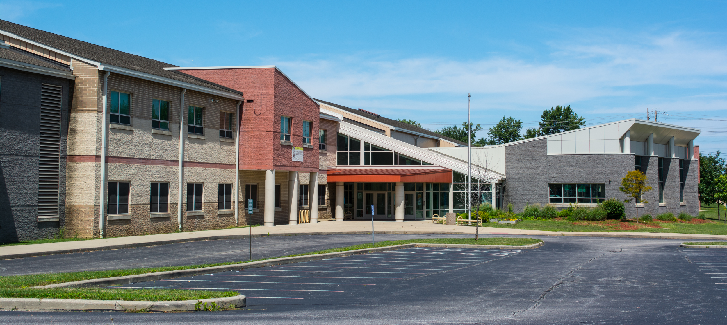 The Miles Park Elementary School located at 4090 E. 93rd Street in Cleveland, Ohio, in the United States. The Union-Miles Park neighborhood's first public school, later known as the Miles Park School, opened in 1818 near the corner of Miles and Broadway Avenues. The Cleveland Metropolitan School District approved a replacement for the Miles Park School at 4090 E. 93rd Street in 1969. Delayed a year by a construction workers' strike, the new school opened in September 1971. The 1969 Miles Park School was demolished about 2005, and a new Miles Park School opened at the same site in August 2007.